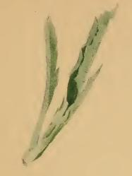 Stainton’s Natural History of the Tineina (1855–1873): Agonopterix kaekeritziana a shoot of Centaurea nigra folded by larva